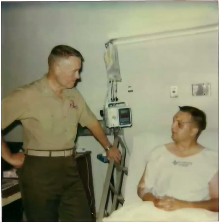 Randy Norfleet with USMC Commandant